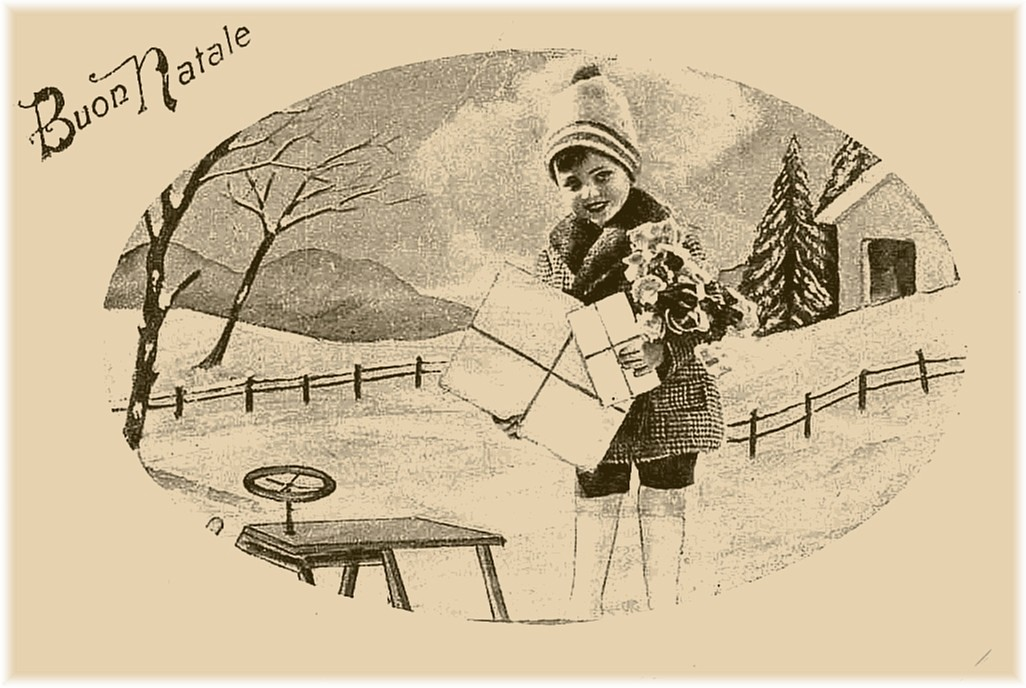 Sepia-toned postcard mailed from Bressanone, Bolzano, Italy, dated December 21, 1931; features combination artwork/photo graphic of provincial Christmas/winter scene